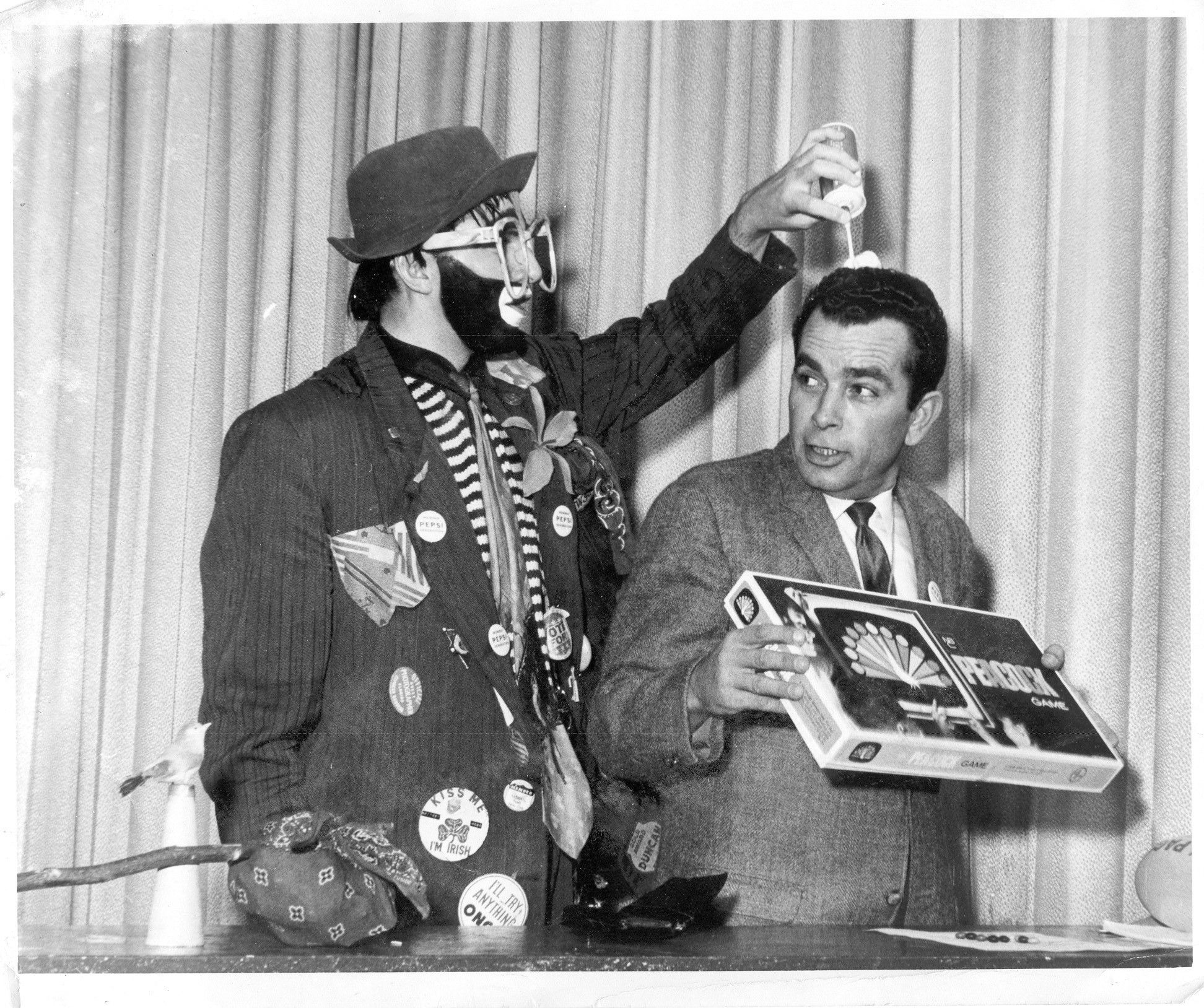 A biography of Sammy Bland, native of Rocky Mount, N.C., who is a broadcaster, weatherman and NASCAR track announcer.